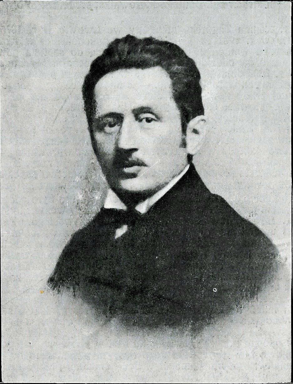 Dr Roman Zagórski (1875-1927)